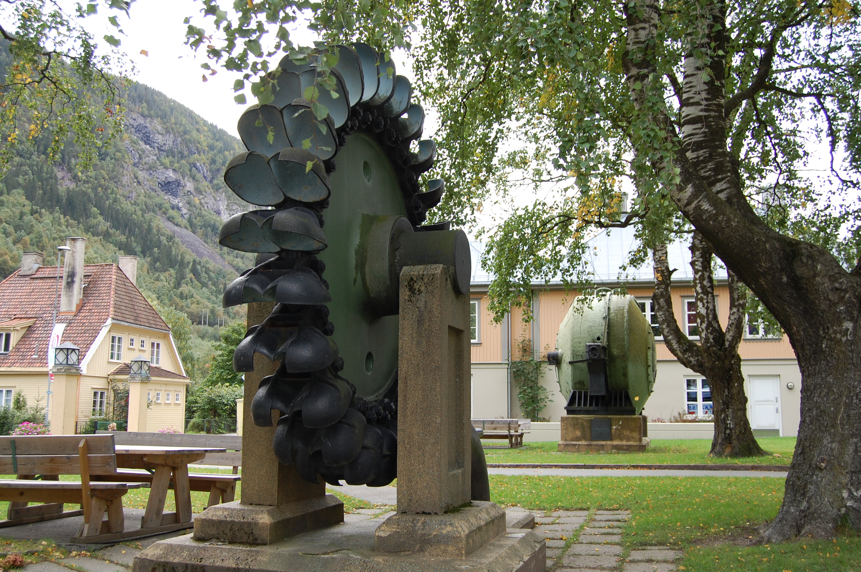 A runner and nozzle of a pelton turbine and a Birkeland-Eyde's electric arc furnace, exhibited in a park in Rjukan, Norway. Furnace plaque information: "The furnace was invented and constructed by professor Kristian Birke-land and dr.ing. H.C. Sam Eyde for the fixation of atmospheric nitrogen. Furnaces of this type were in operation at Rjukan from 1912 to 1940. From 1928 the elctric arc process was gradually replaced by the ammonia synthesis process."